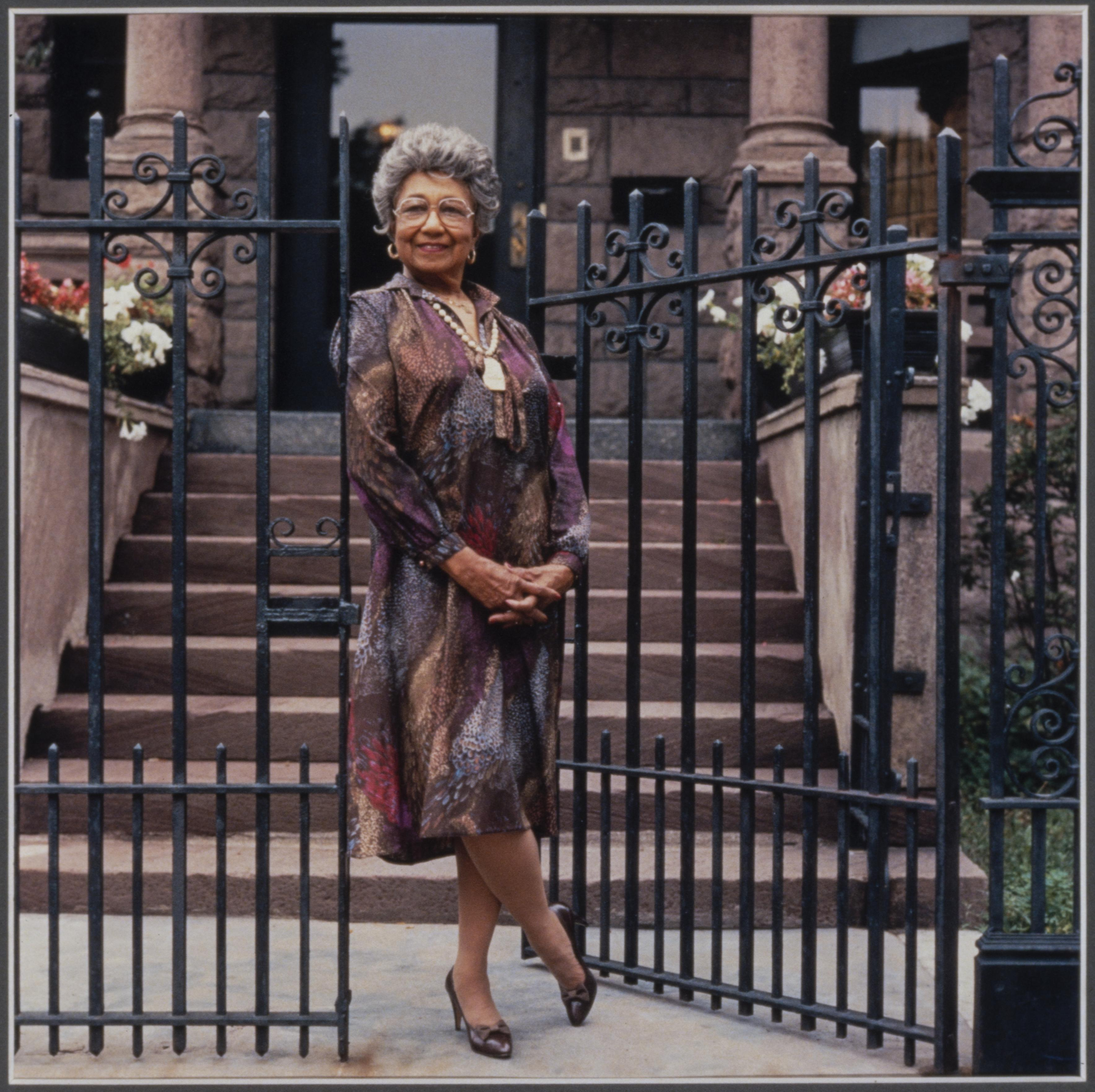 Biography: Etta Moten Barnett is an internationally known actress, concert artist, and radio personality who has had a varied, lively, and highly productive career in the performing arts. She studied voice in college, and later at the graduate level, speech and psychology. Known for her portrayal of Bess in Gershwin's Porgy and Bess she has appeared in Broadway productions, in film, and as the host of her own radio program. With her husband, Claude Barnett, founder-director of the Associated Negro Press, she has traveled as an official United States delegate to many African countries. In 1958 she was a special guest of the All-African People's Conference, and in 1960 of the All-African Women's Conference. In 1975 she headed the United States non-governmental delegation to the International Women's Conference in Mexico City. A sought-after lecturer and public service volunteer in Chicago, Ill., Mrs Barnett has served a number of organizations and chaired the International Women's Decade for The Links, Inc. Description: The Black Women Oral History Project interviewed 72 African American women between 1976 and 1981. With support from the Schlesinger Library, the project recorded a cross section of women who had made significant contributions to American society during the first half of the 20th century. Photograph taken by Judith Sedwick Repository: Schlesinger Library on the History of Women in America. Collection: Black Women Oral History Project Research Guide: Questions?